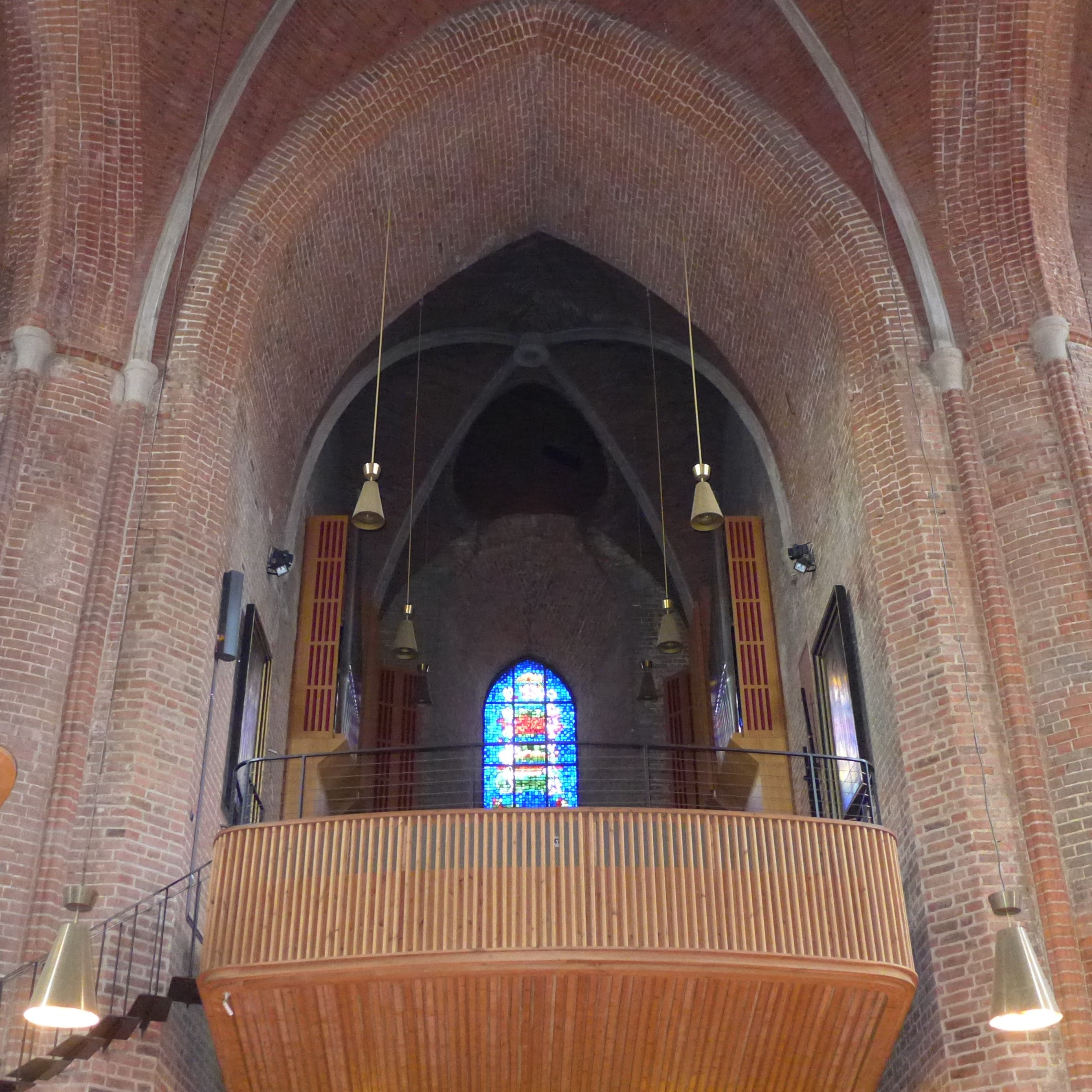 Hannover